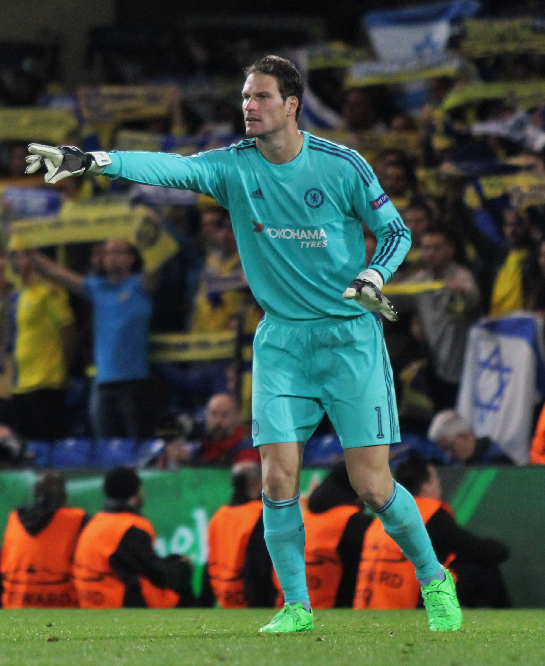 Asmir Begovic of Chelsea gives out orders during the Champions League game against Maccabi Tel-Aviv.